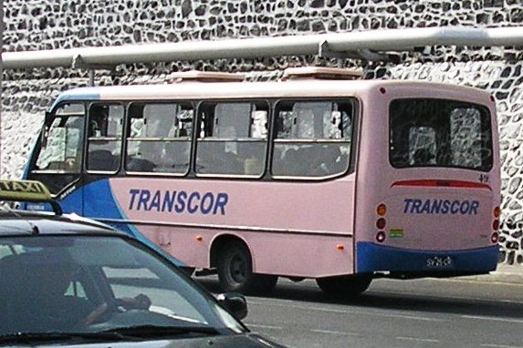 Bus from Transcor company in Mindelo town, São Vicente island, Cape Verde